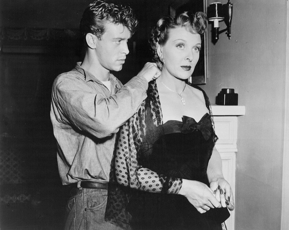 Photo of Skip Homeier and Evelyn Ankers from the General Electric Theater presentation The Hunted. The item has no copyright markings on it as can be seen in the links above.